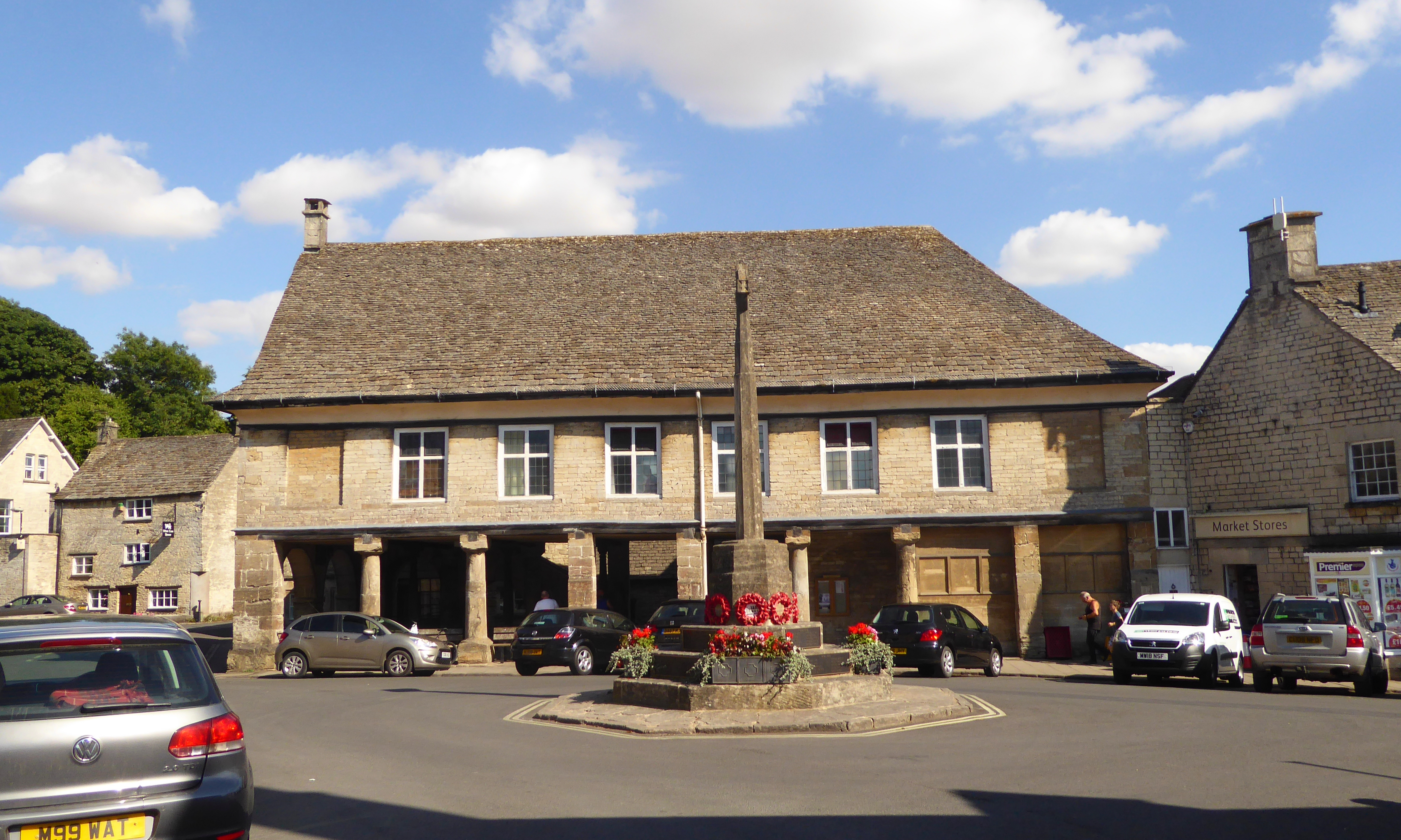 The market house in Minchinhampton, with the war memorial in front of it.